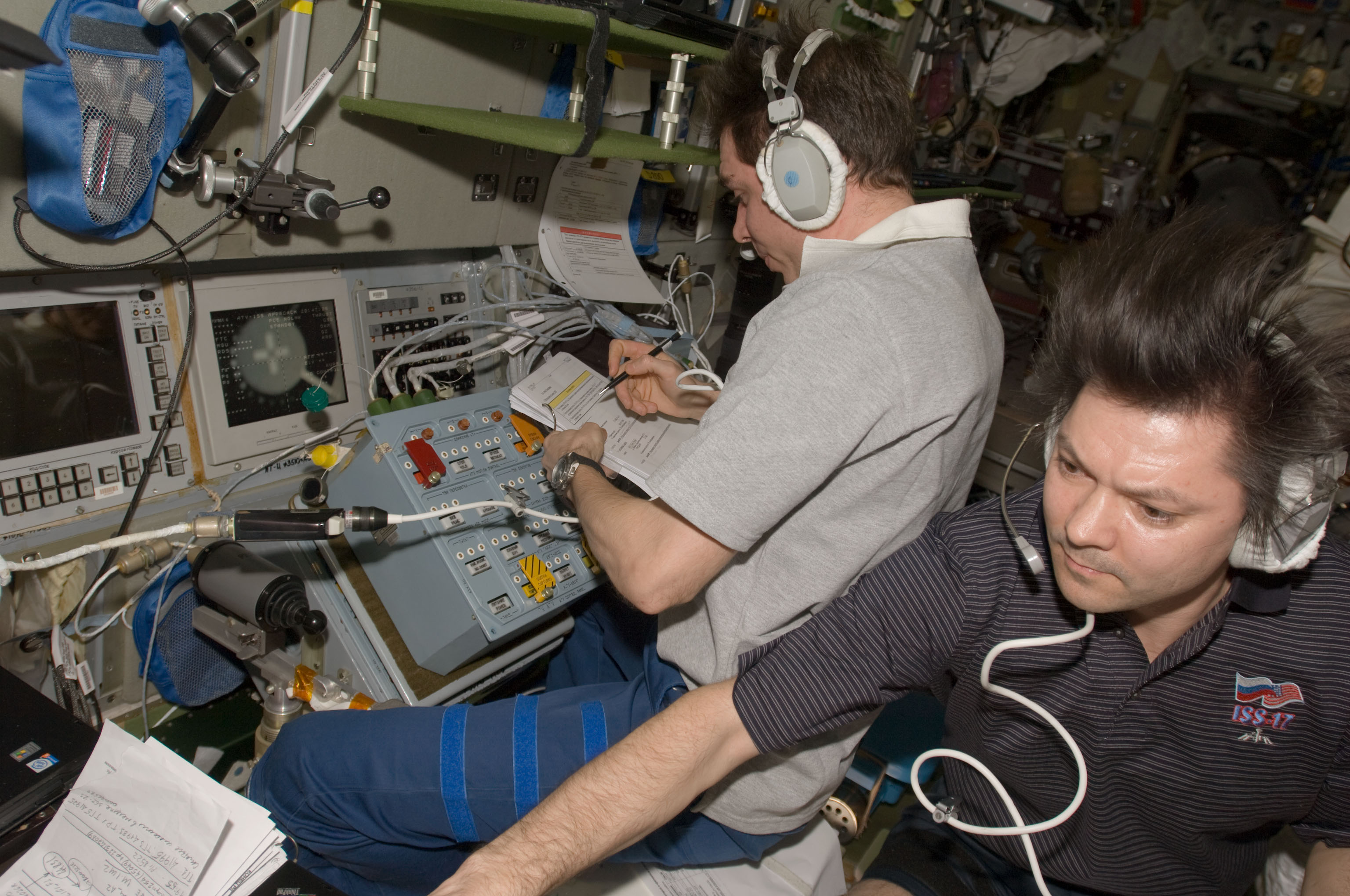 Russian Federal Space Agency cosmonauts Sergei Volkov (left) and Oleg Kononenko, Expedition 17 commander and flight engineer, respectively, make preparations in the International Space Station's Zvezda Service Module for the undocking of the European Space Agency's (ESA) "Jules Verne" Automated Transfer Vehicle (ATV). The ATV departed from the aft port of Zvezda at 4:29 p.m. (CDT) on Sept. 5, 2008 and was placed in a parking orbit for three weeks, scheduled to be deorbited on Sept. 29 when lighting conditions are correct for an ESA imagery experiment of reentry.